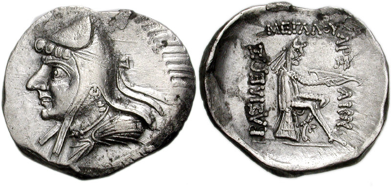 Coin of a Parthian ruler, minted between 185-132 BC.